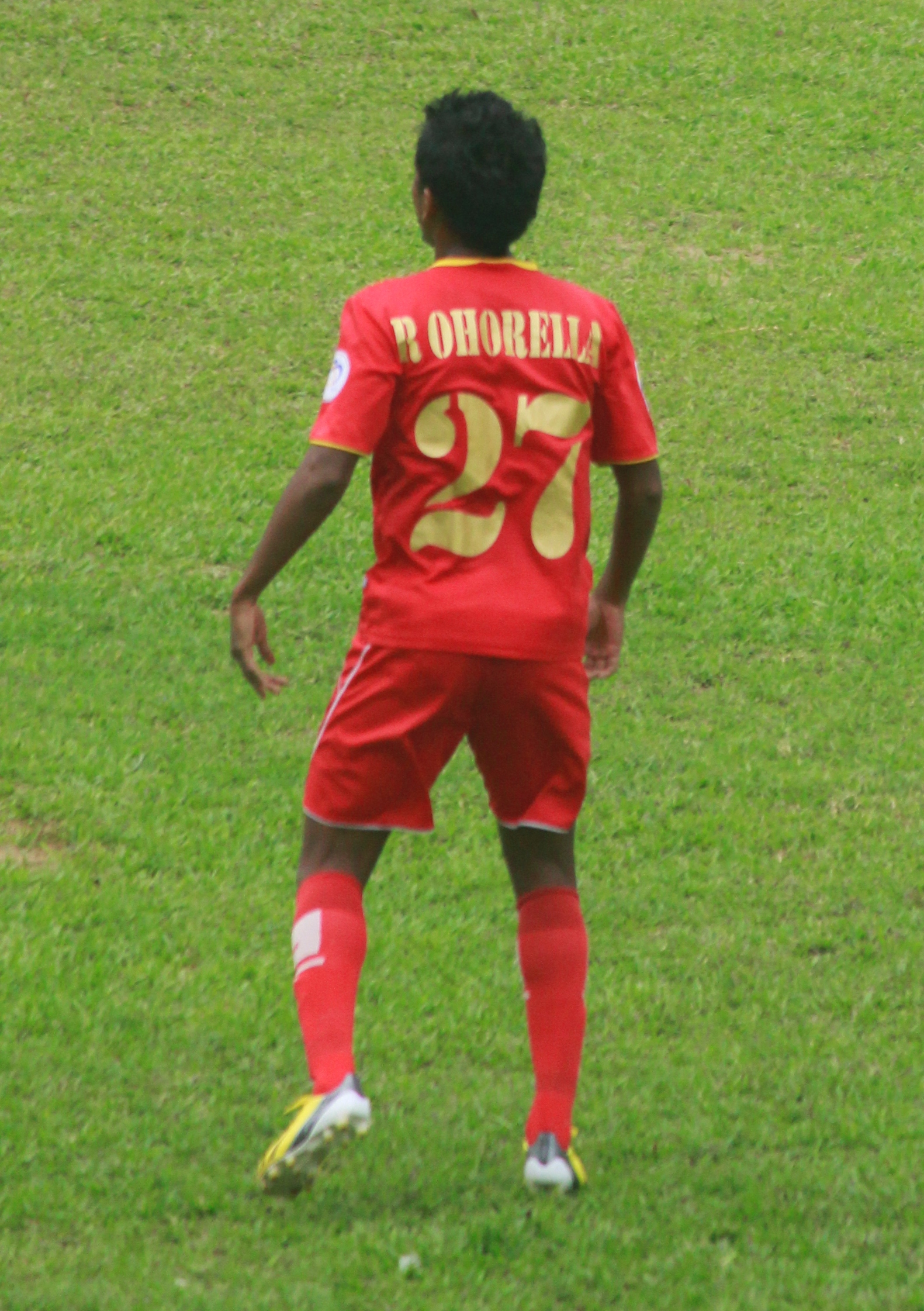 Ricky Ohorella playing for Semen Padang against Sime Darby, 30 December 2013 in Padang.